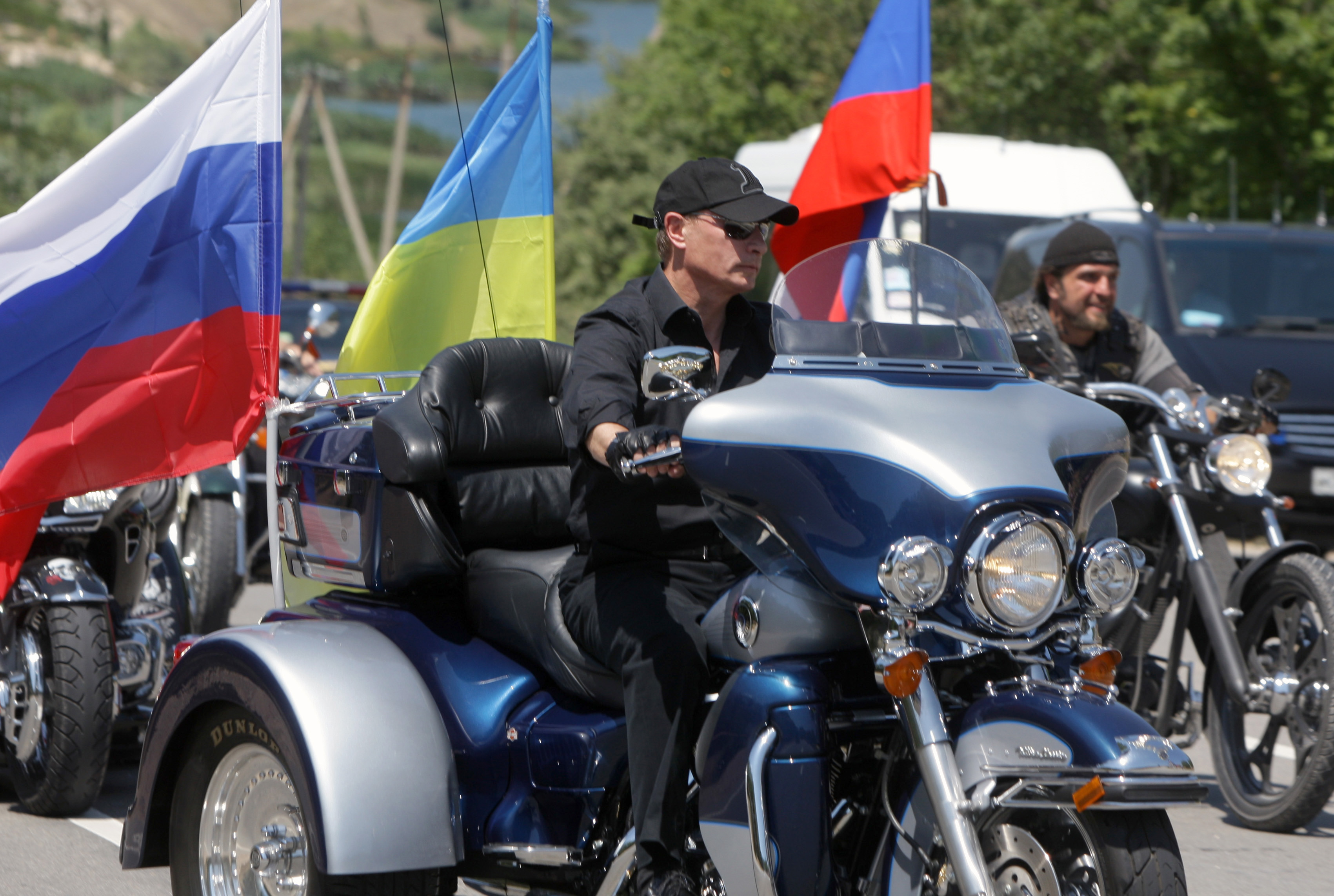 Vladimir Putin on XIV International Bike Show in Sevastopol